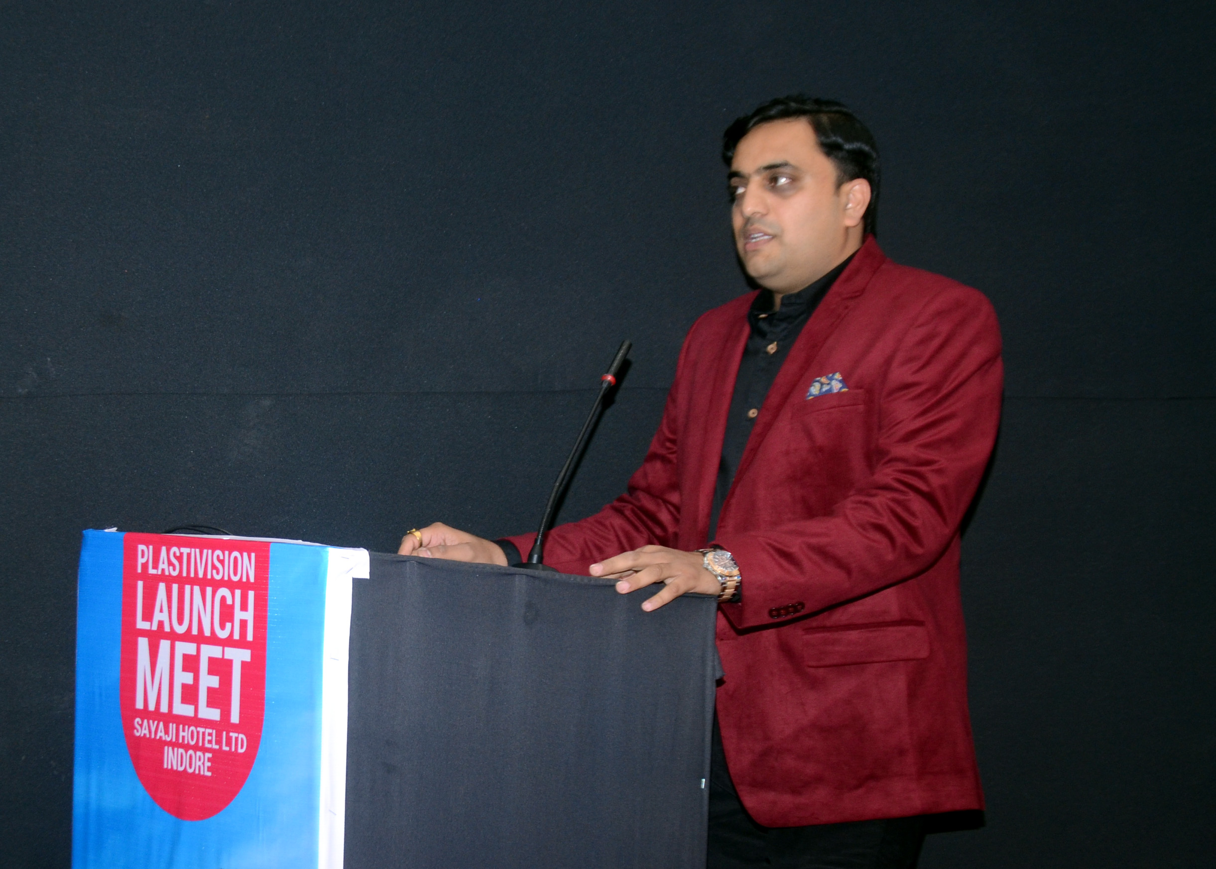 Mr. Sachin Bansal, MD Bhaskar Resins Pvt Ltd Indore